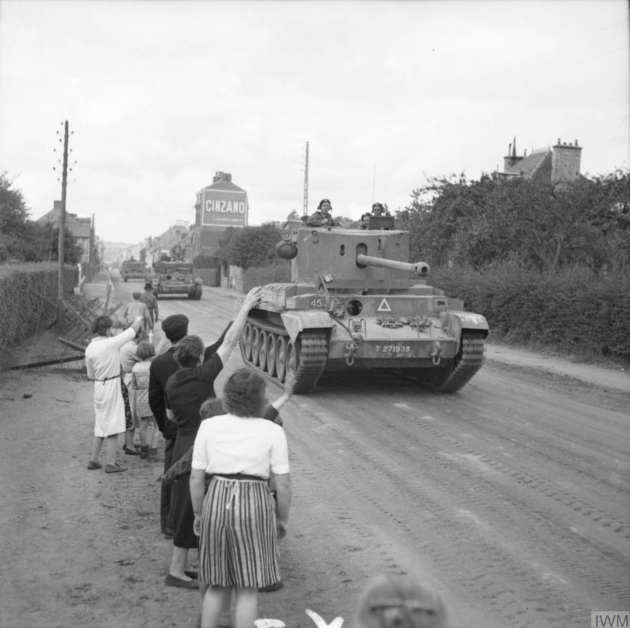 Challenger tank (foreground) and Cromwell tanks (background) of 2nd Northamptonshire Yeomanry, 11th Armoured Division, passing through Flers, France.